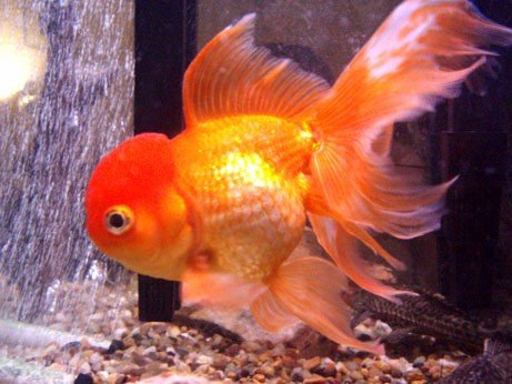 An orange oranda